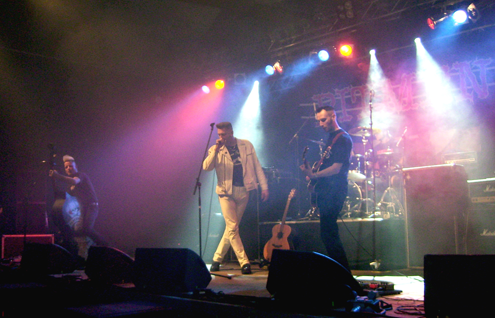 Pitmen's show on Satanic Stomp festival. Germany, 2008